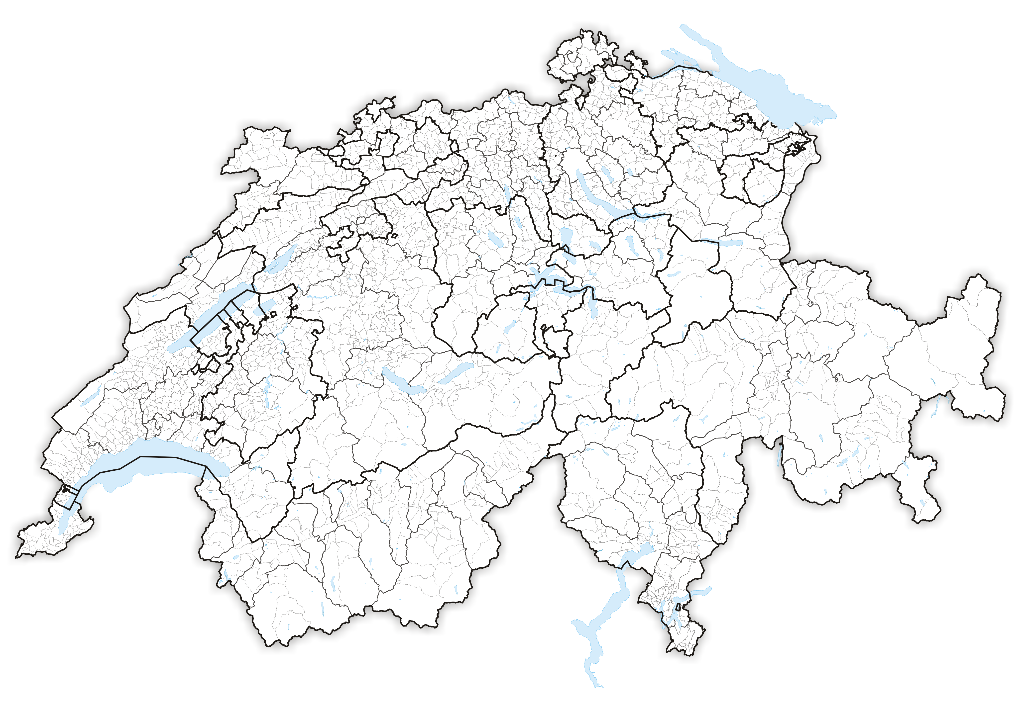 Municipalities in Switzerland